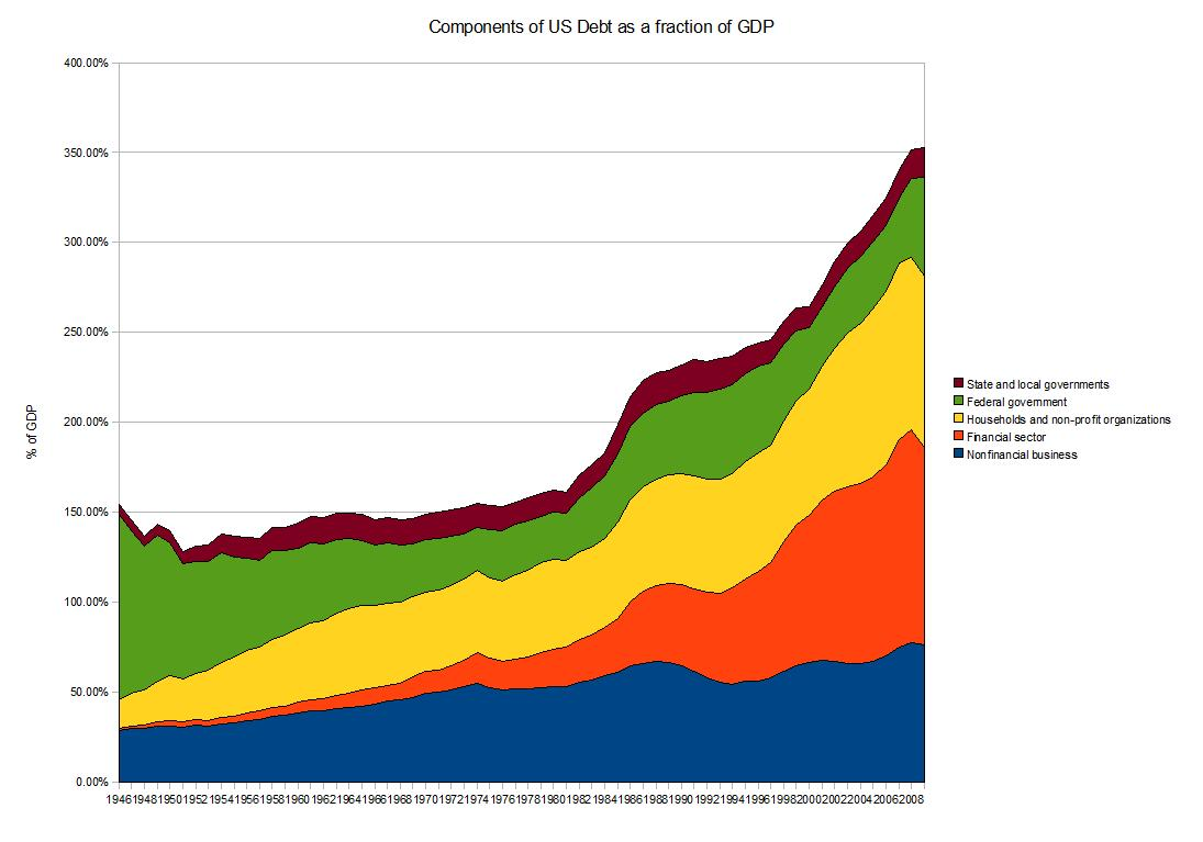 Chart of the components of United States public and private debt since 1945 as a fraction of GDP.